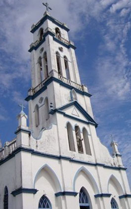 São Gabriel da Cahoeira's Cathedral